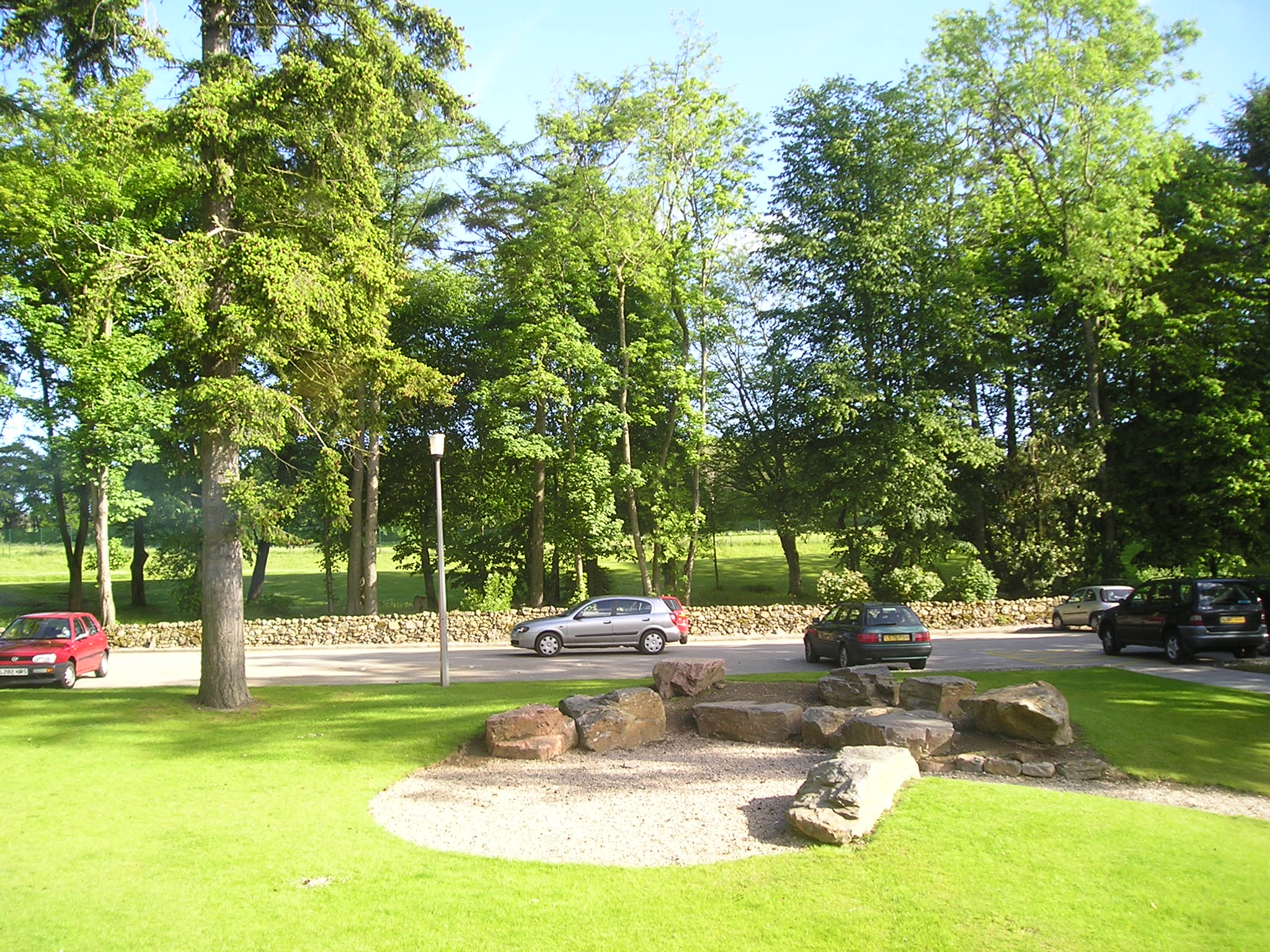 Picture taken by myself when I was attending the school at around 2004. The picture depicts the school's playing field.